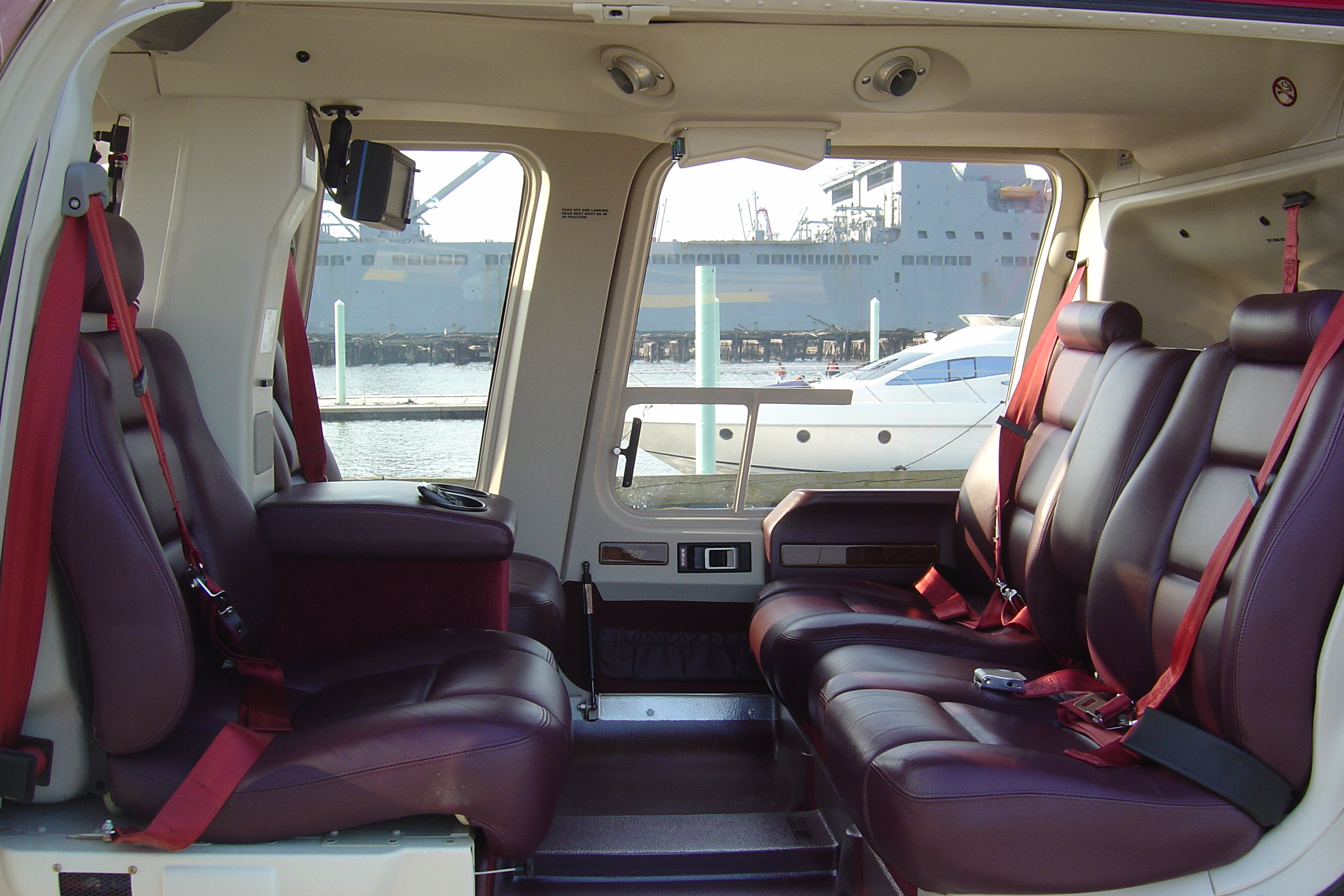 Interior of corporate Bell 407 helicopter based in Maryland